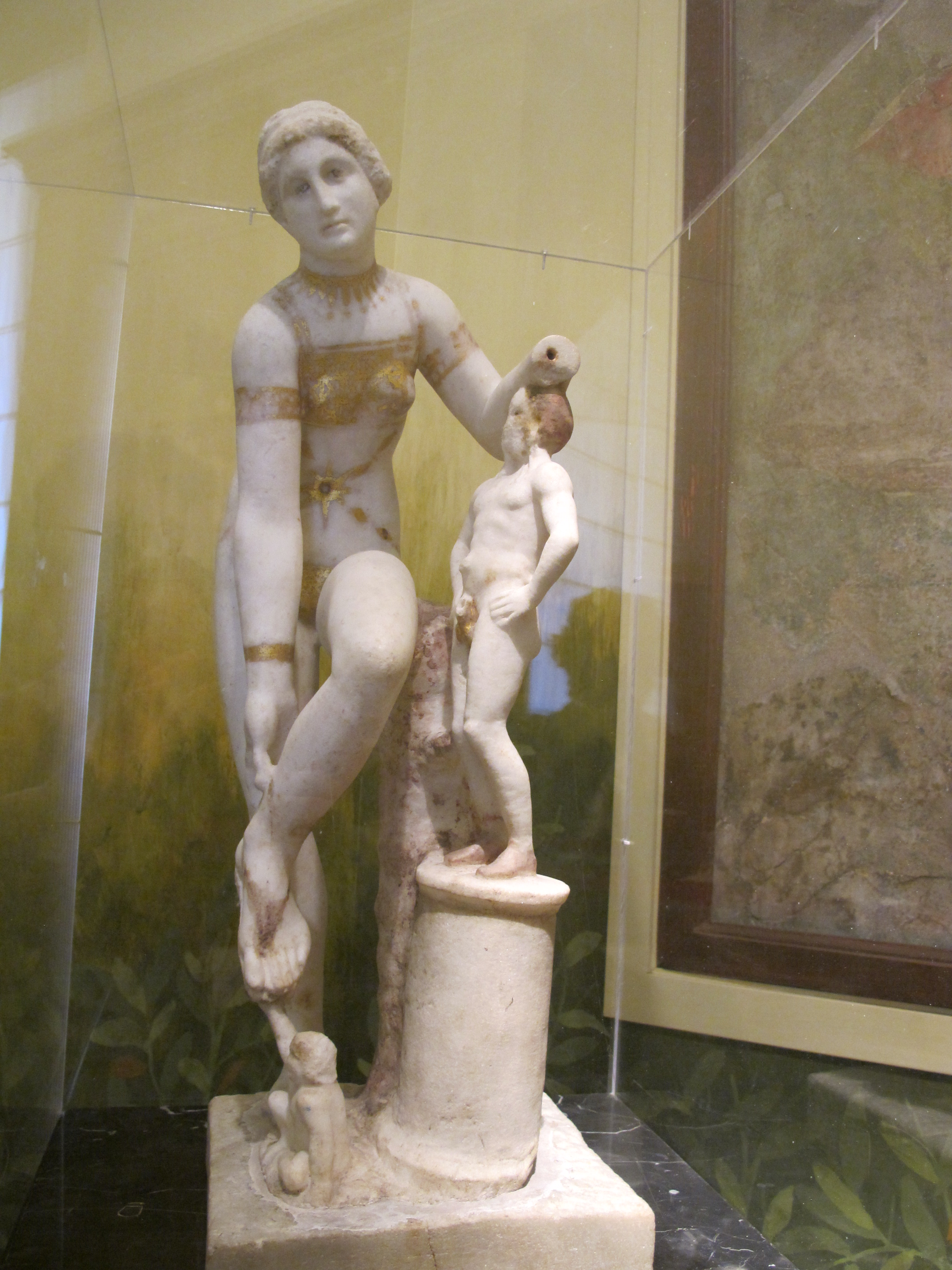 Gilded statue of Roman Goddess Venus found in Pompeii, currently in the Museo Archeologico in Naples.